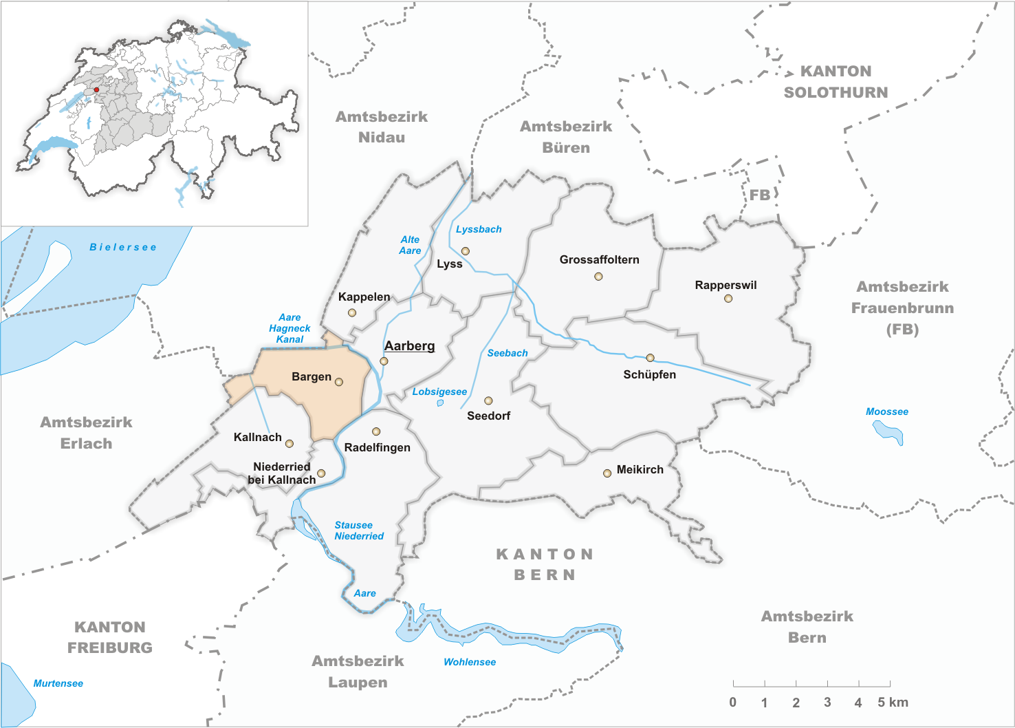 Municipality Bargen